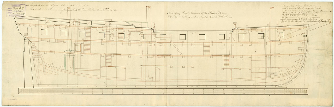 Pallas (1793), Stag (1793), Unicorn (1734), Galatea (1794), Lively (1794), Alcemene (1794), Cerberus (1794), Maidstone (1795), Shannon (1796) Scale 1:48. Plan showing the inboard profile for Pallas (1793), Stag (1793), Unicorn (1734),all 32-gun, Fifth Rate Frigates. The plan was later used in 1793 for Cerberus (1794) and in 1795 for Galatea (1794), Lively (1794), Alcemene (1794), Maidstone (1795), and Shannon (1796). The alterations in red relate to Maidstone and Shannon only. PALLAS 1793